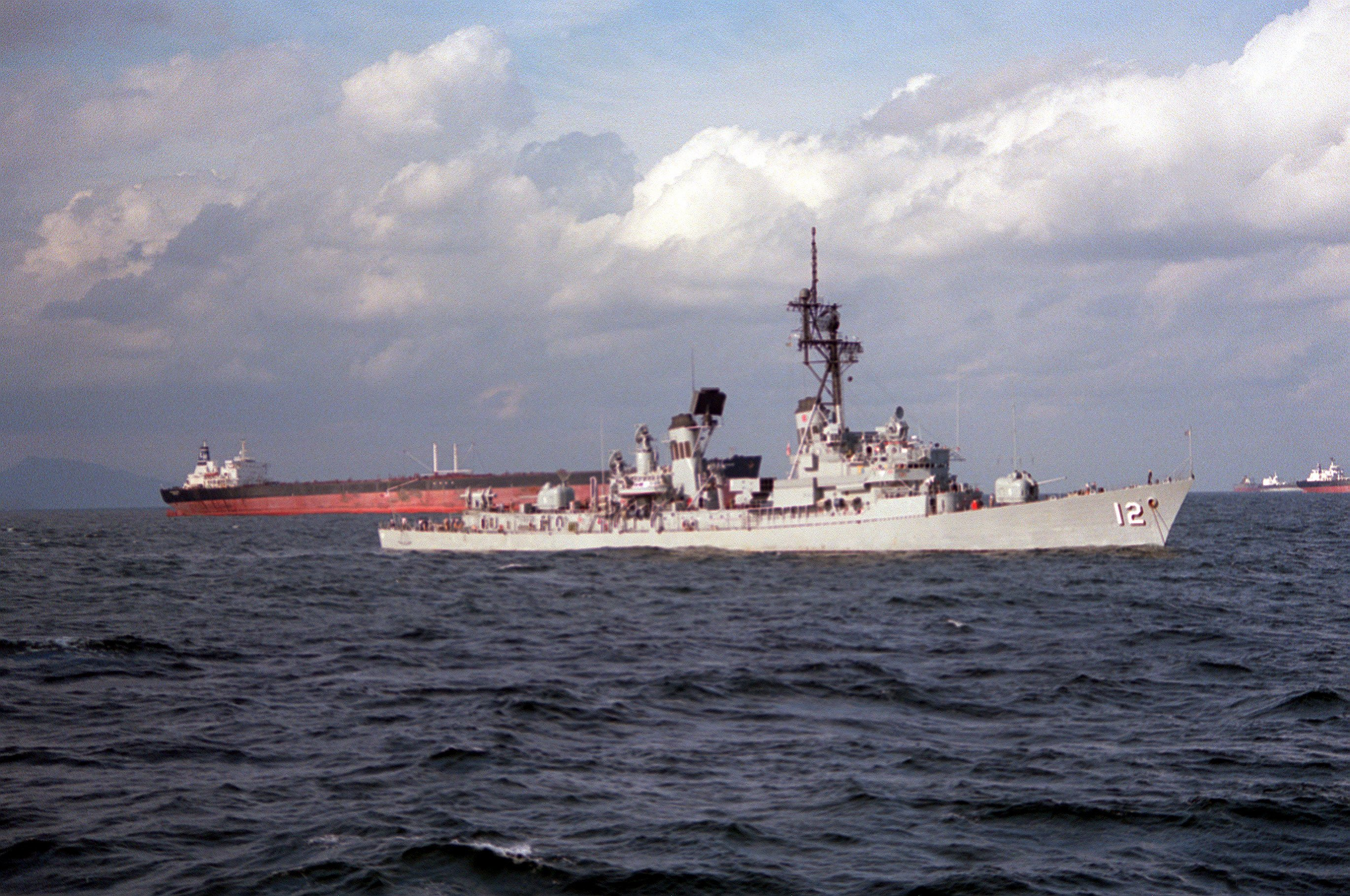 The U.S. Navy the guided missile destroyer USS Robison (DDG-12) anchored near the tanker Polyanthus off the coast of the United Arab Emirates on 1 October 1983.